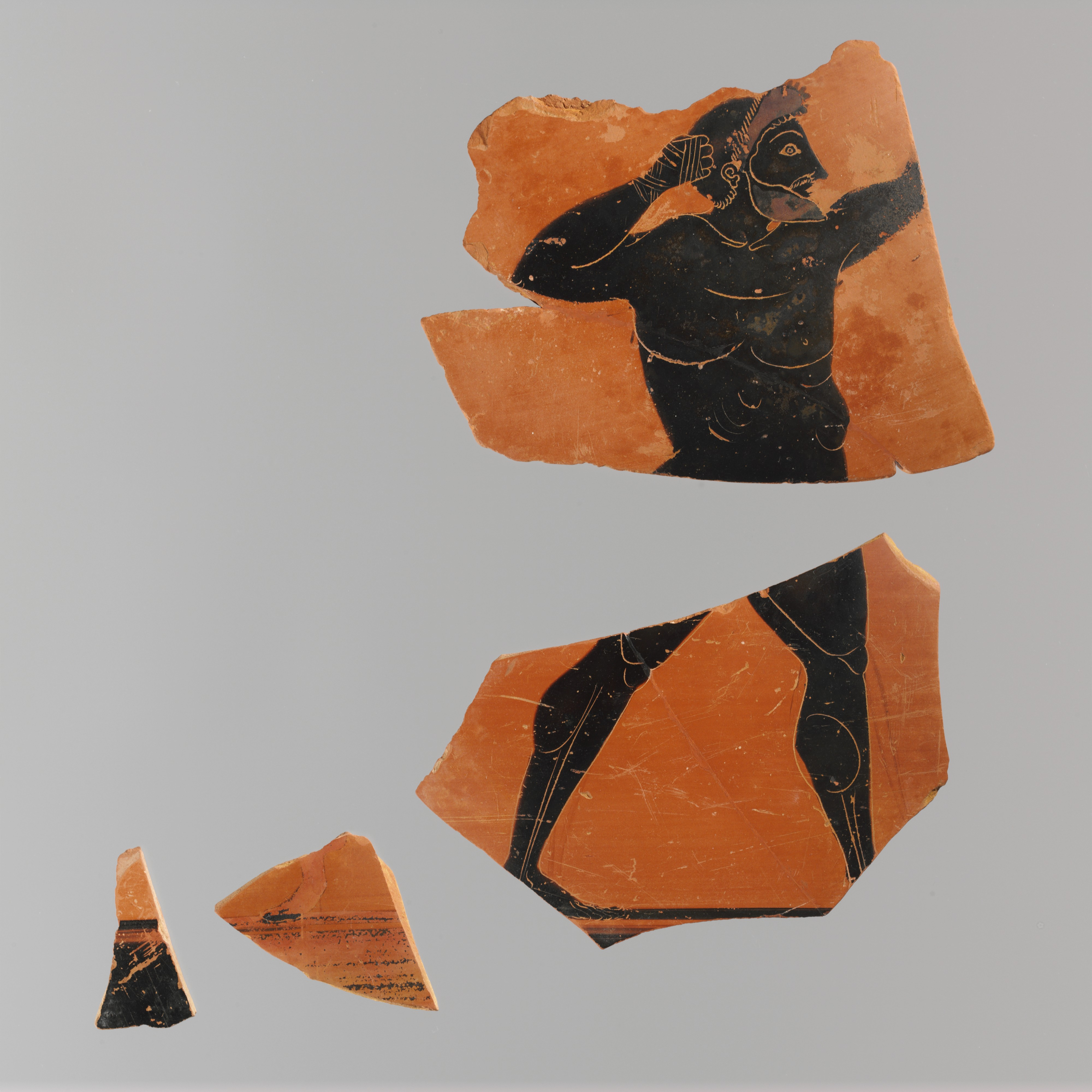 Boxer. The articulation of the athlete's body here suggests a seasoned veteran. His hands wrapped in thongs, the boxer is about to deal a blow to his opponent.